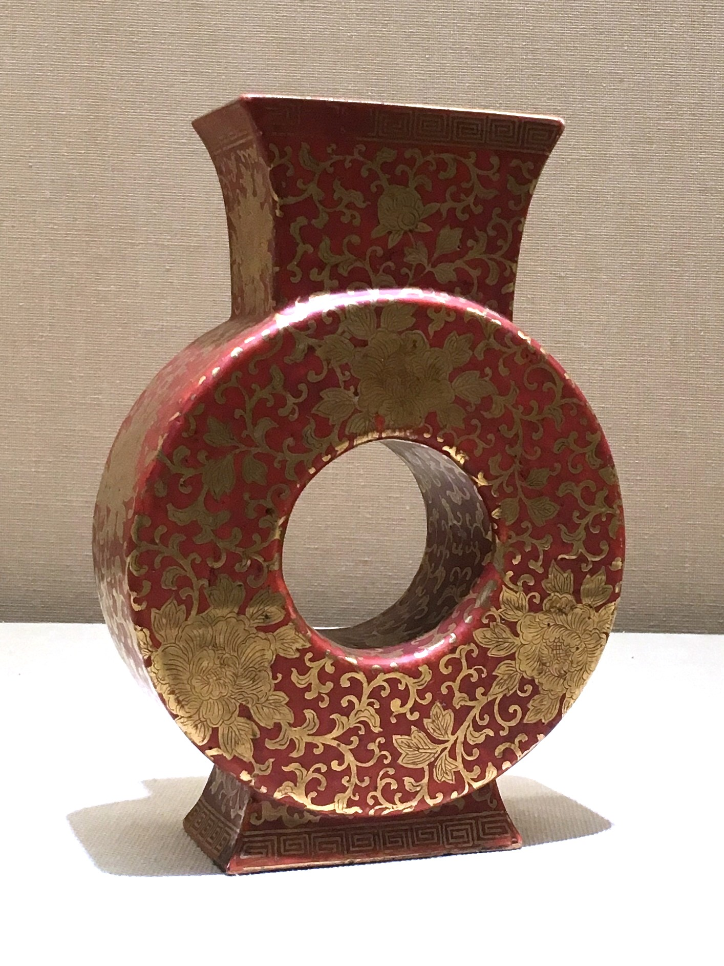 Flower vase, overglaze red and gold kinrande. Kotō ware. Edo period, 19th century. Height: 19.6 cm Mouth Diameter: 9.1x5.6 cm Diameter: 13.5x5.3 cm Other: 8.2x4.7 cm (bottom diameter)